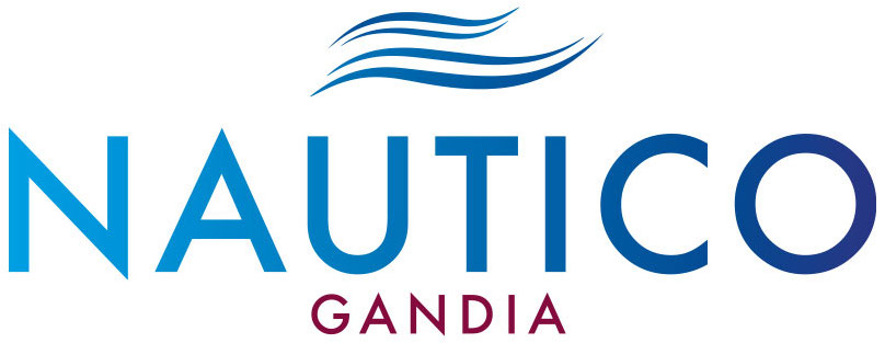 Logo of the Yachting Club “Real Club Náutico de Gandía“ in Spain